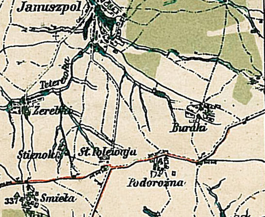 Buriaky, Berdychiv Raion, Zhytomyr Oblast, Ukraine on German Übersichtskarte von Mitteleuropa (U50 Proskurow), 1914